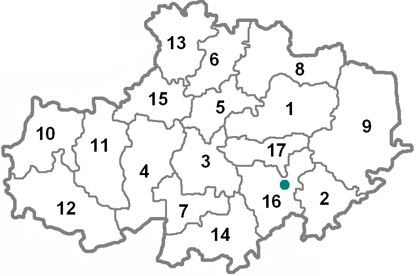 Map of the districts of Aqmola Province in Kazakhstan with numbers.